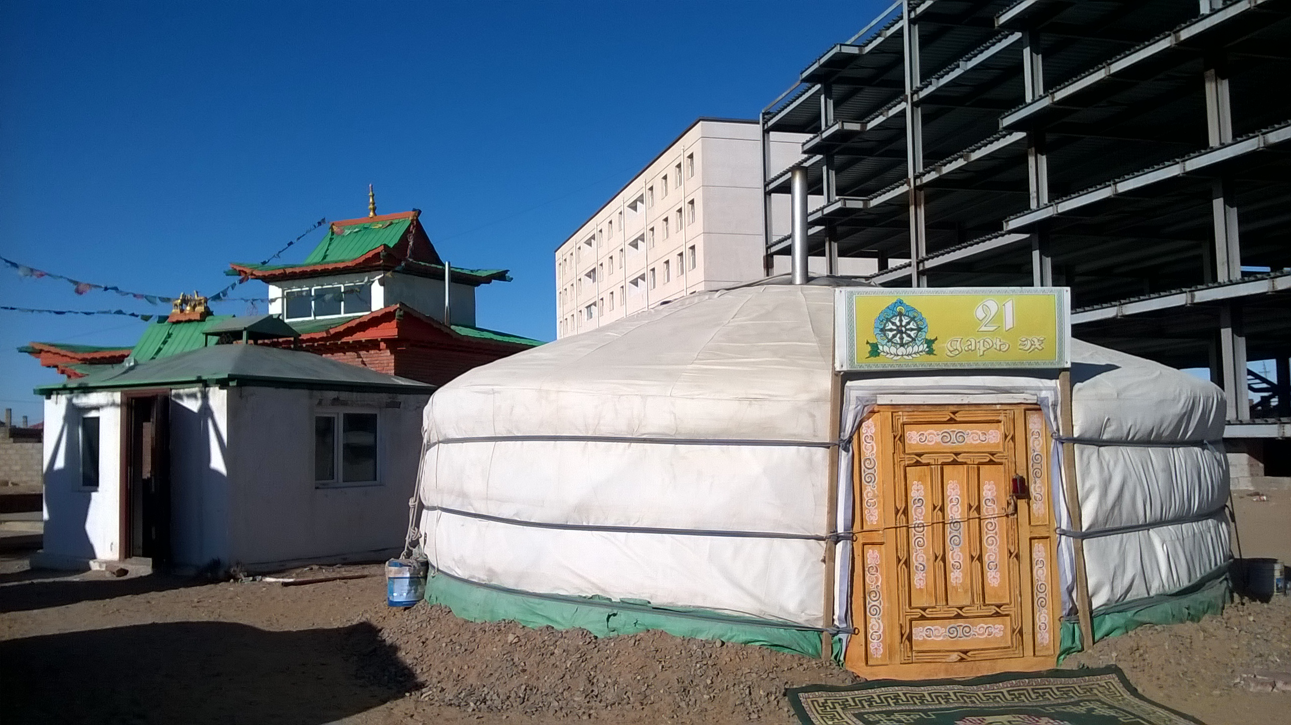 A lama temple and a yurt in the suburban area of Zamyn-Uud.